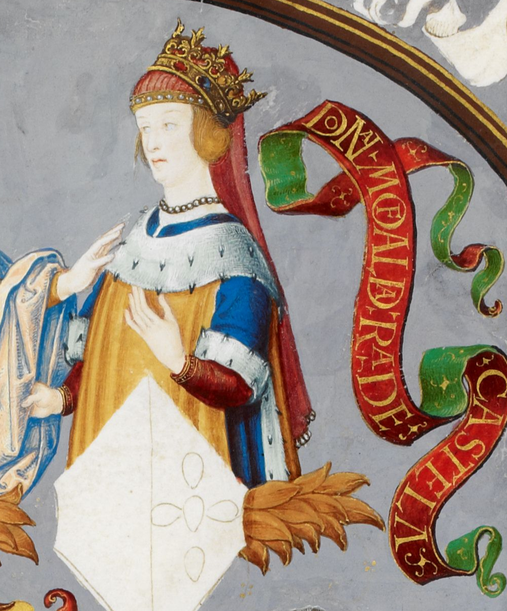 D. Mafalda of Portugal (c. 1197-1256), queen consort of Castile after marrying Henry I of Castile.